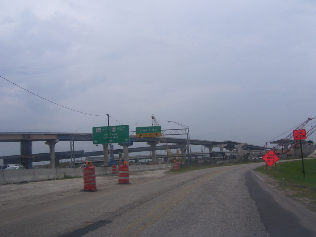 A view of the State Road 589 interchange near Tampa International Airport.